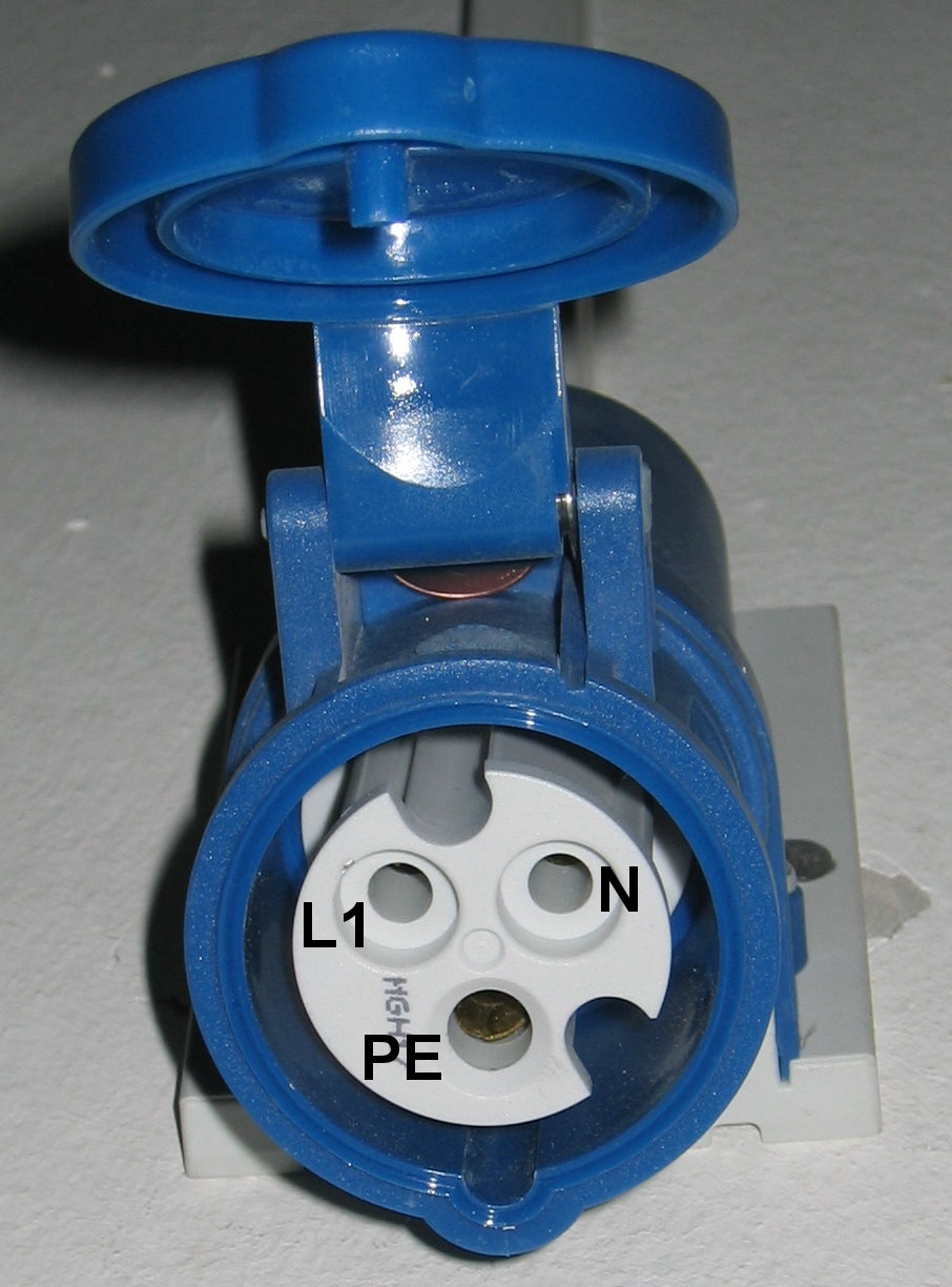 CEE electrical wall socket with 16A and 230V according to IEC 60309, pinning marked